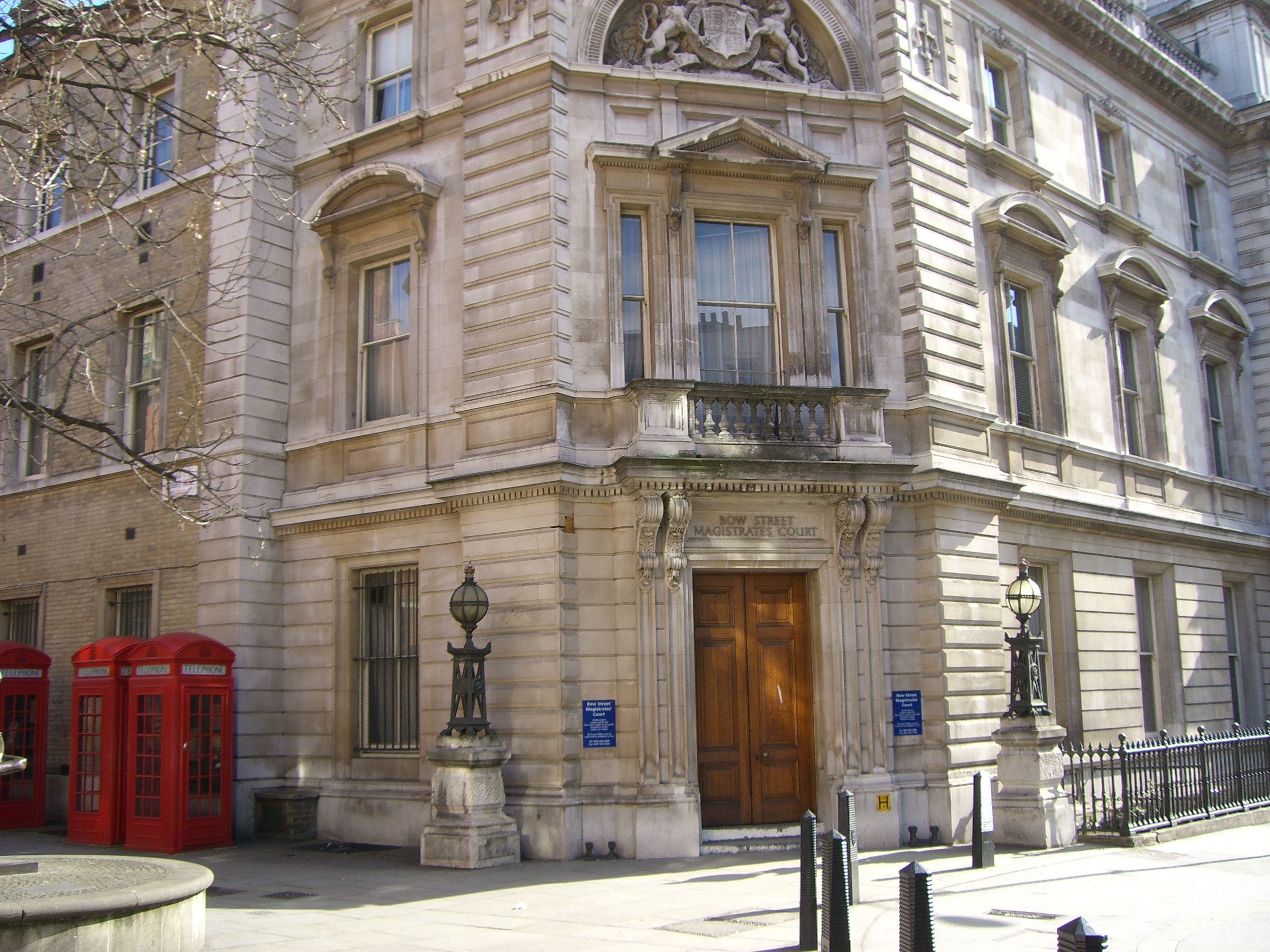 Bow Street Magistrates' Court Photo taken by User:Edward on 19 March 2006 with a Casio EX-S600.